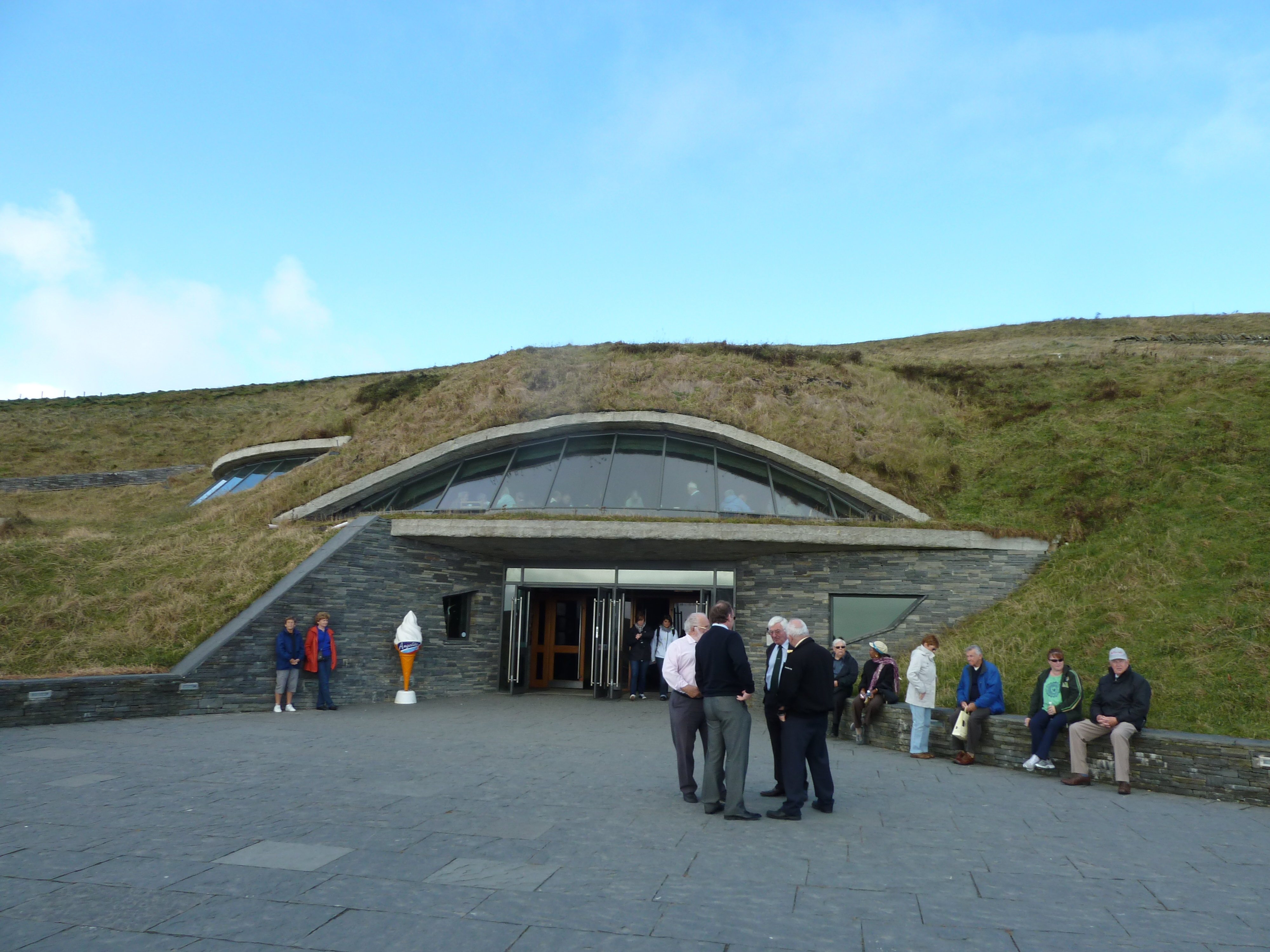 Visitor centre of Cliffs of Moher